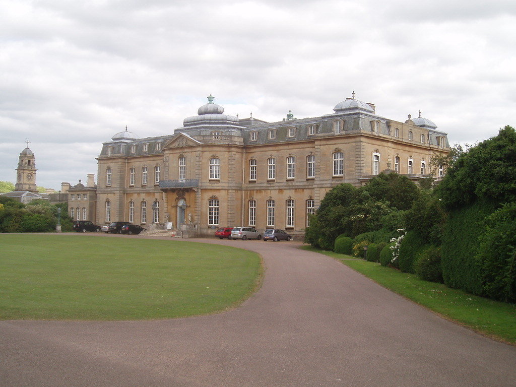 Wrest House (mansion) in Silso